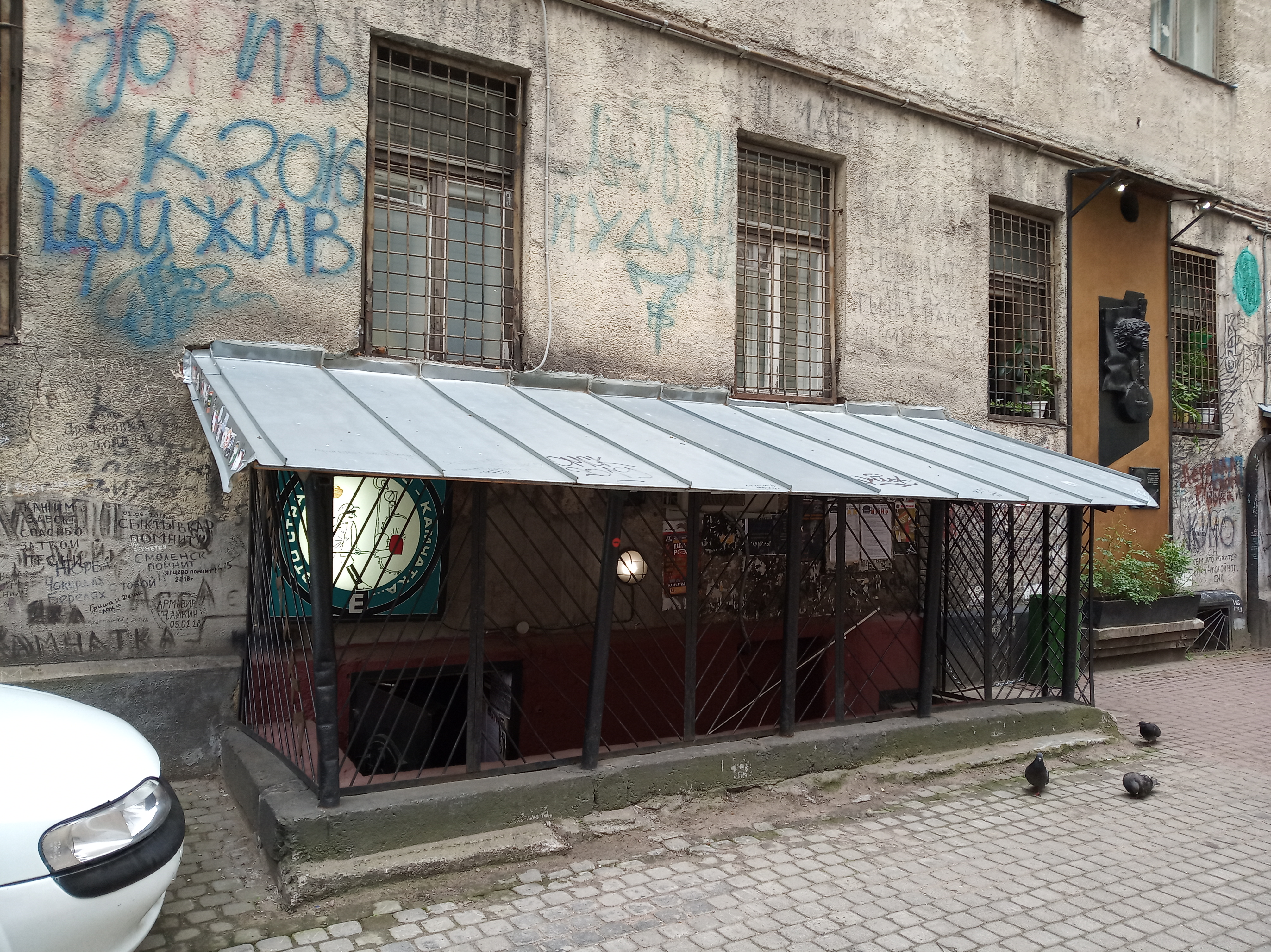 Blokhina Street, 15